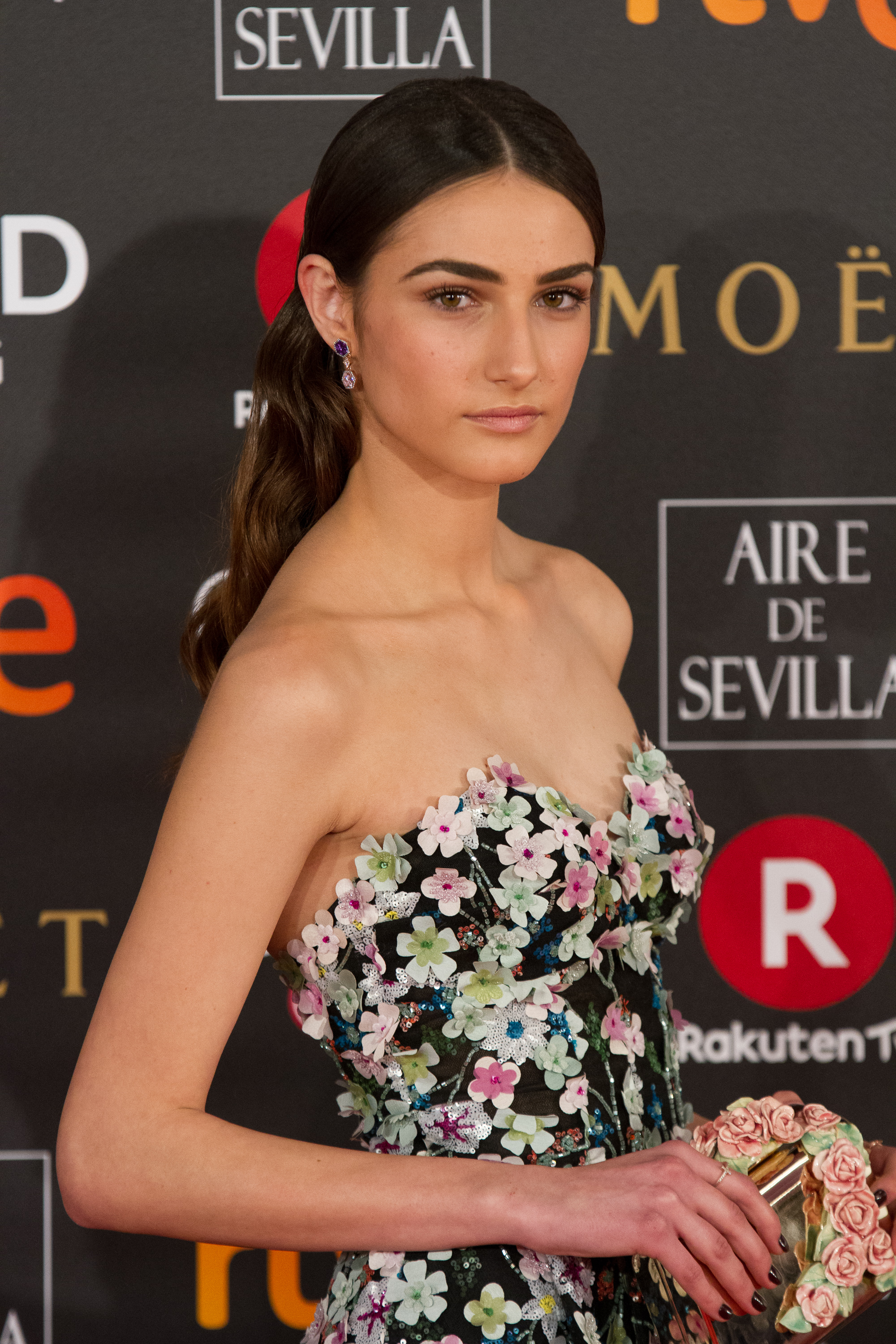 32nd Goya Awards, 2018.